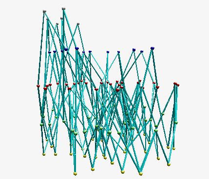 Village of Belén Atzitzi-mititlán within Apetatitlán de Antonio Carvajal, Mexico, visualized with the nodes as marriages, upward links to parents: all pairs of nodes are multiply connected through relinking marriages that create the boundaries of structural endogamy. Marriages with blood kin are forbidden (e.g., up to third cousins) but a core of the villager relink. Village of Belén Atzitzi-mititlán within Apetatitlán de Antonio Carvajal, Mexico, visualized with the nodes as marriages, upward links to parents: all pairs of nodes are multiply connected through relinking marriages that create the boundaries of structural endogamy. Marriages with blood kin are forbidden (e.g., up to third cousins) but a core of the villager relink.